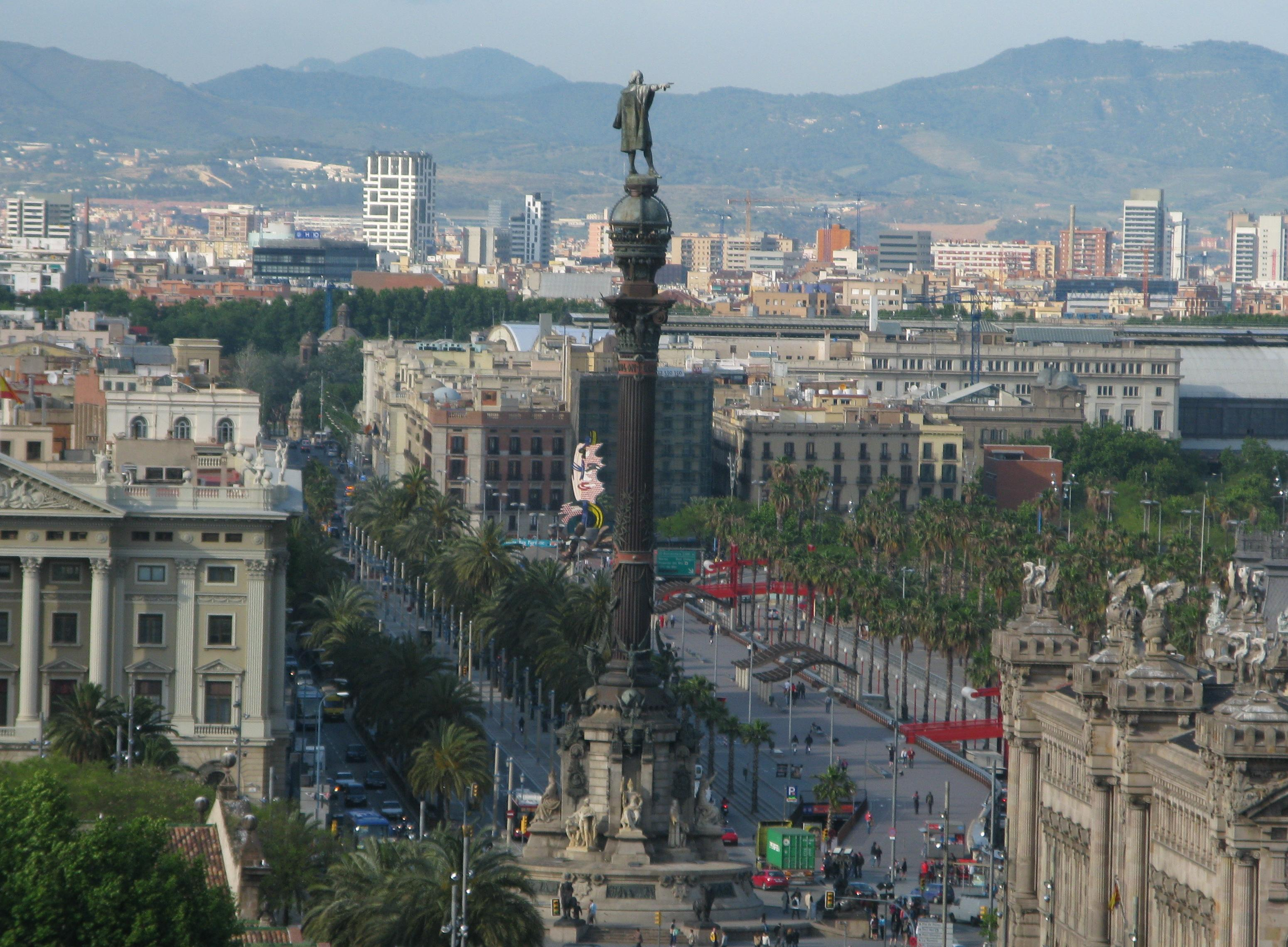 Columbus Monument, Barcelona